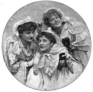 1894 publicity photograph of Louie Pounds, Kate Cutler, and Marie Studholme in A Gaiety Girl